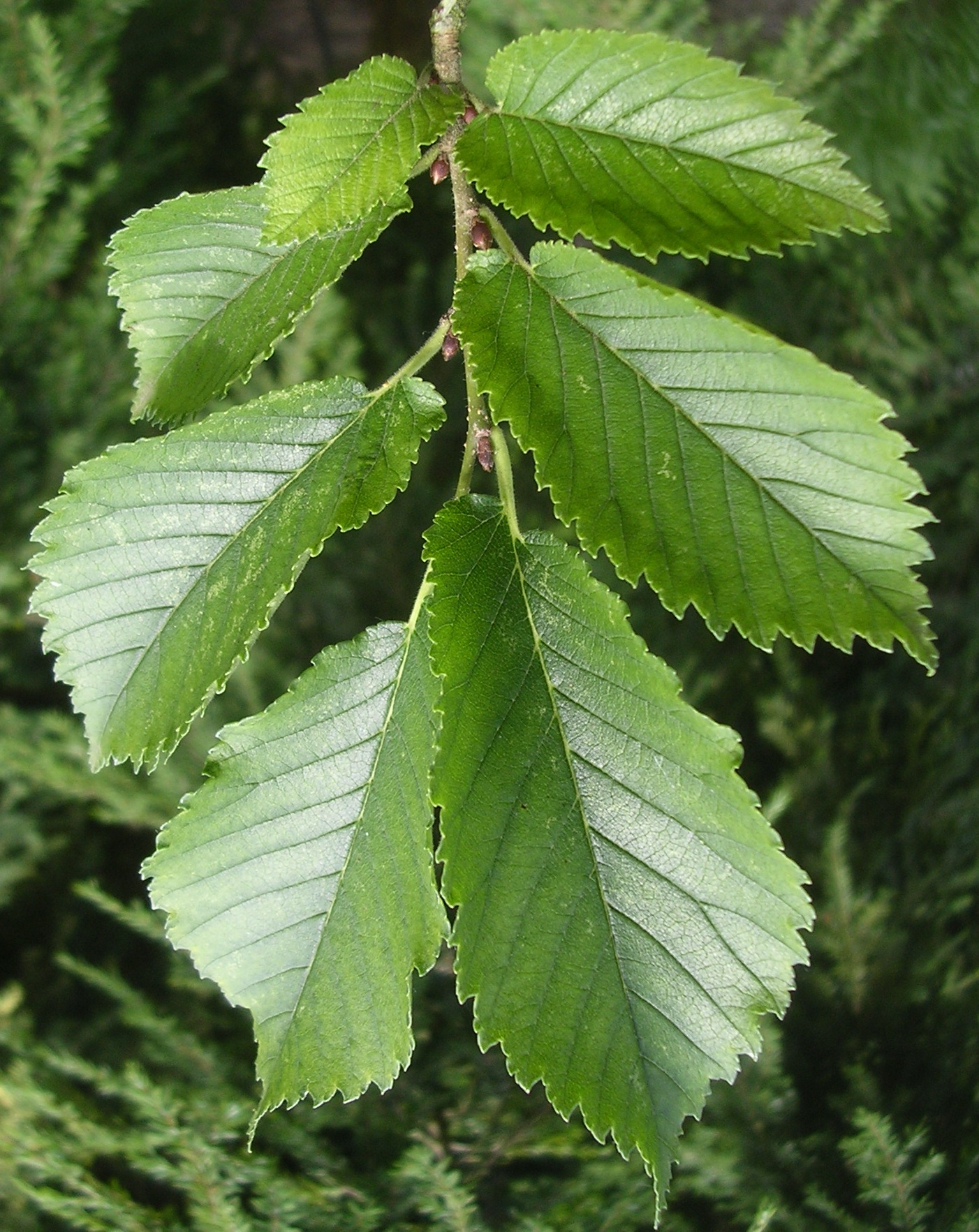 Photo of Ulmus 'Groenveld' leaves